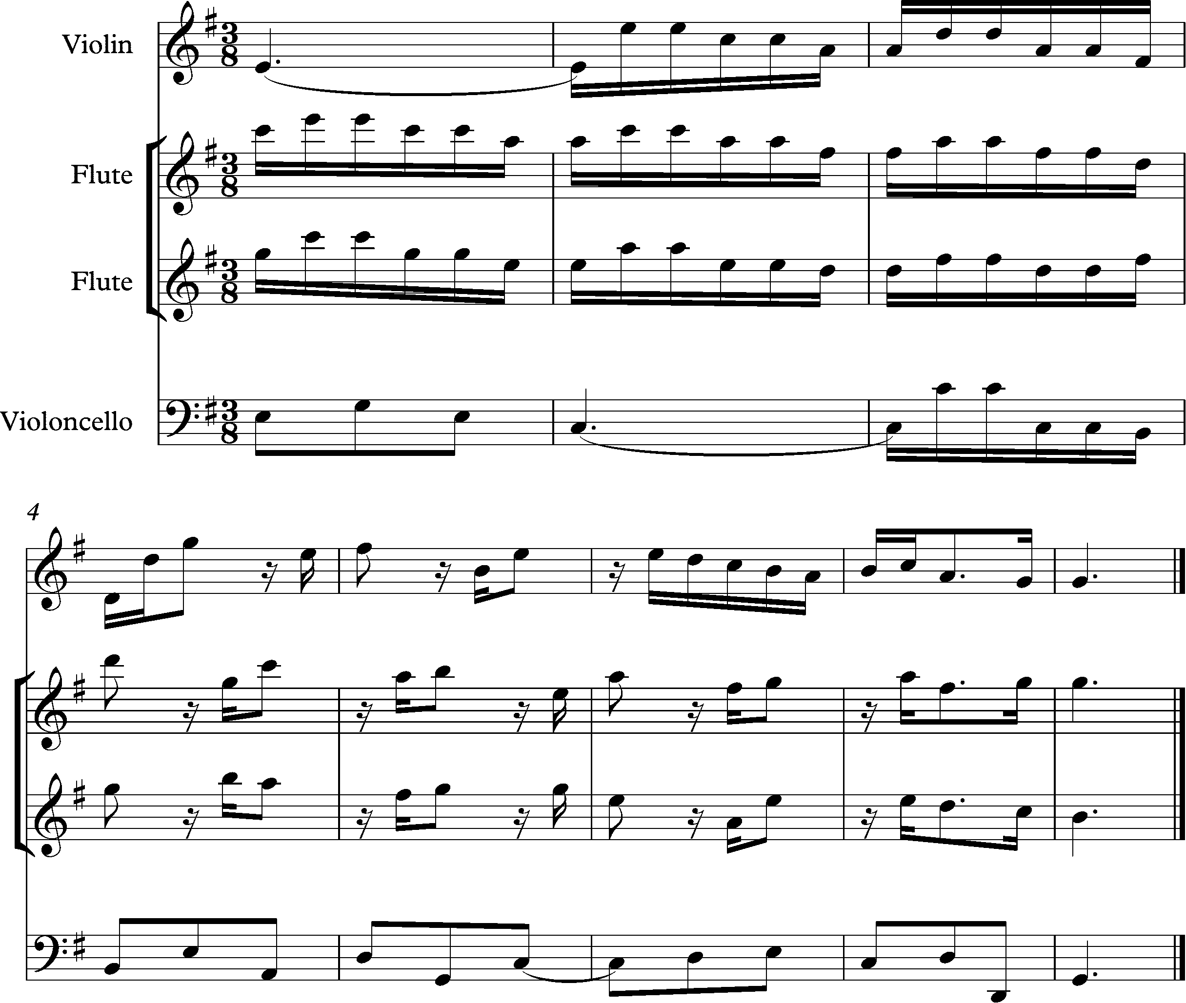 Bach Brandenburg 4 closing bars of the ritornello that ends the first movement